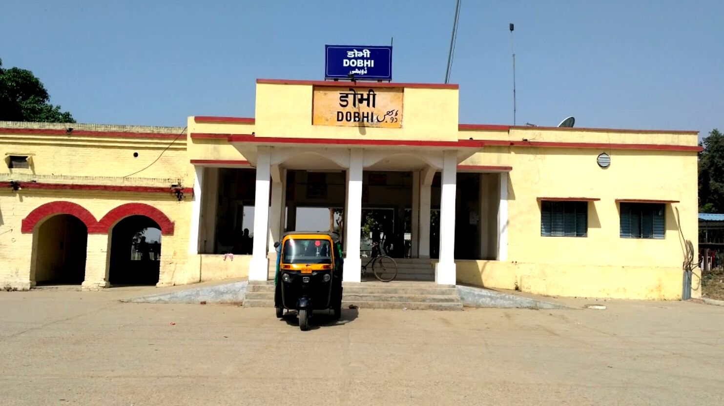 front view of Dobhi Railway Station, (image by Aman Singh Raghuvanshi)